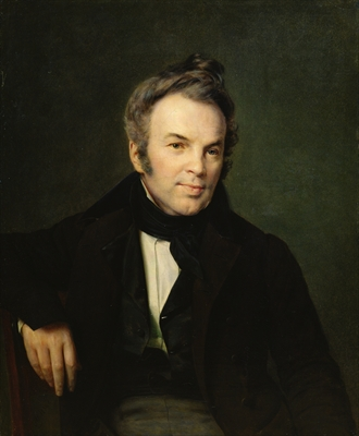 Ivan Ivanovich Lazhechnikov/ Portrait of Ivan Lazhechnikov. 1834. Oil on canvas. Pushkin Museum, St. Petersburg, Russia